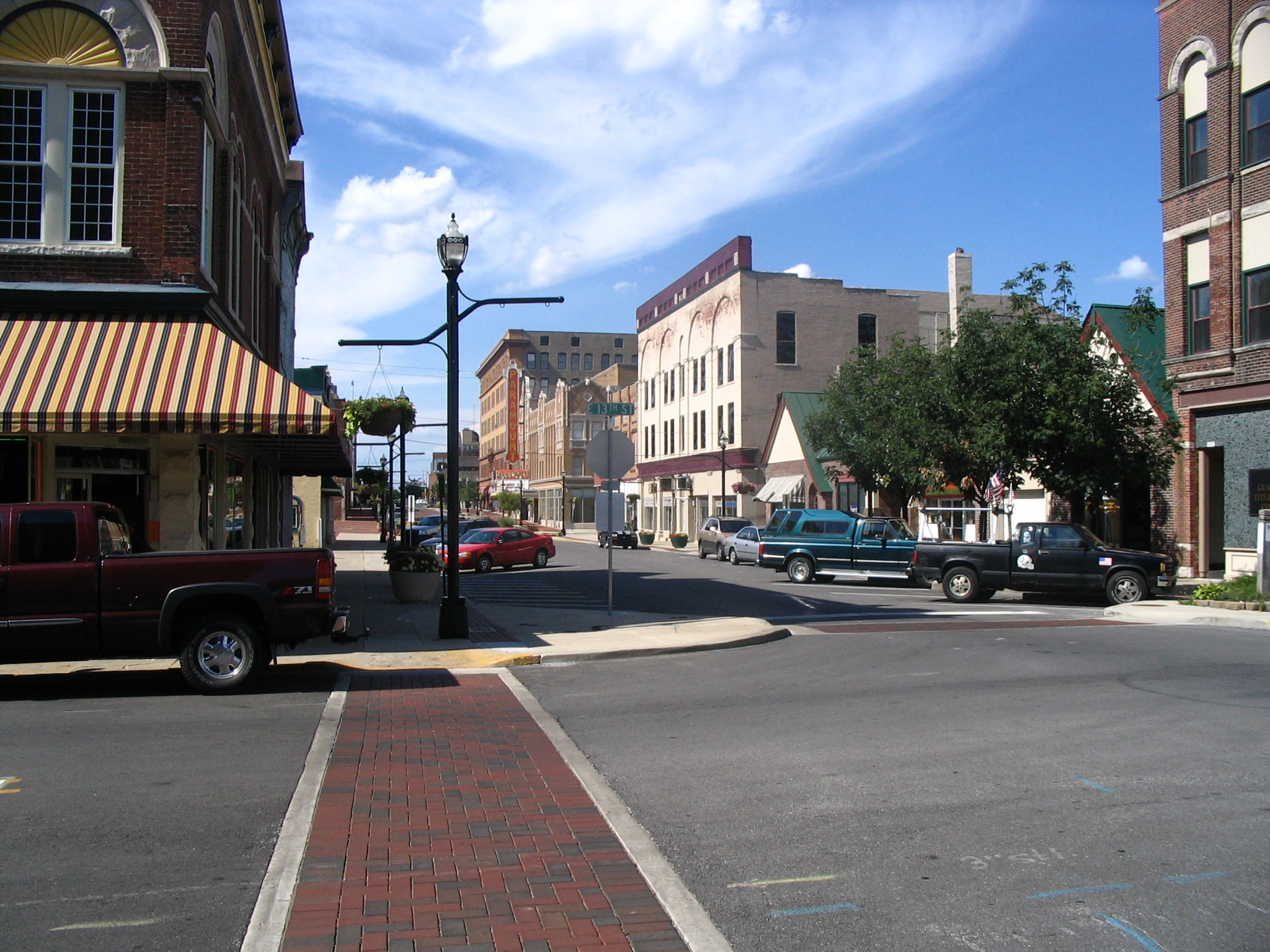 Looking North up Meridian Street at what remains of Anderson's historic downtown core. visible is the Paramount Theater and the large buff-colored Union Building.